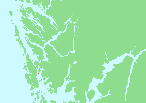 Locator map of Tyssøy, Hordaland, Norway